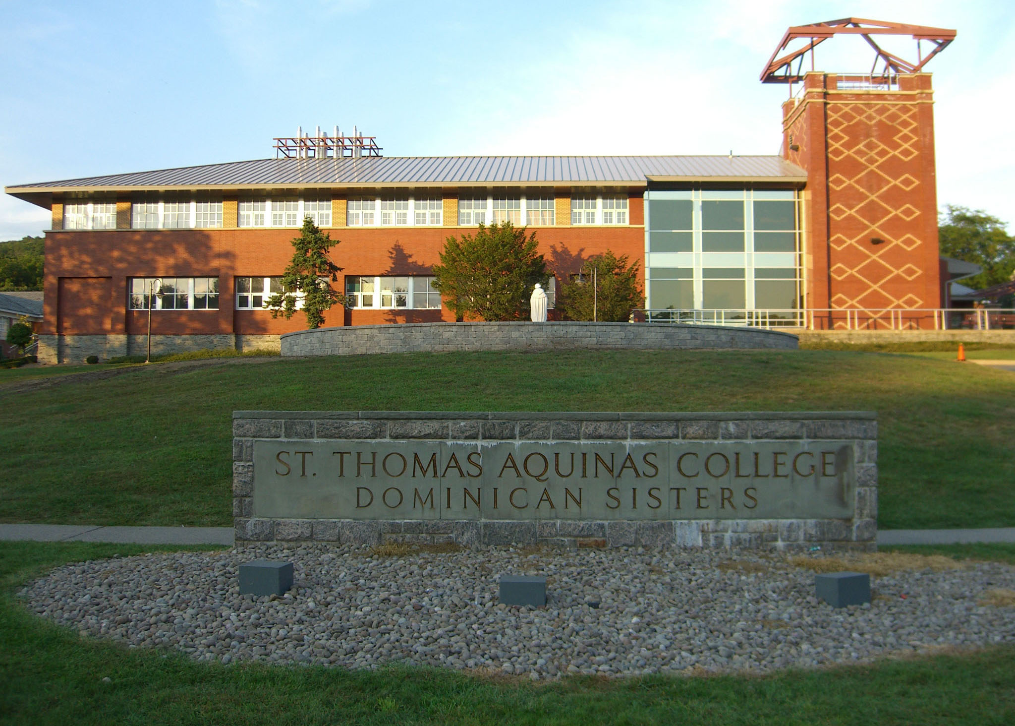 The campus of Saint Thomas Aquinas College, showing Costello Hall in the background. This photo was created by Luigi Novi. It is not in the public domain, and use of this file outside of the licensing terms is a copyright violation.